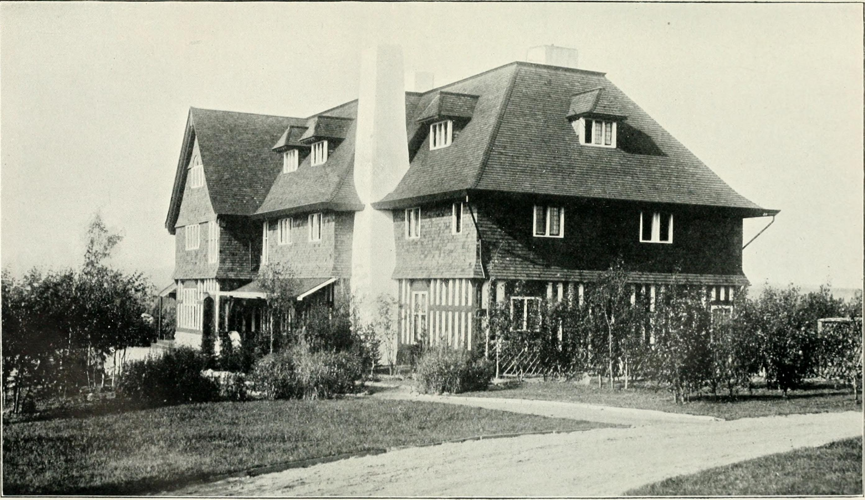 Lord Northcliffe's House, Grand Falls NL, ca. 1911 Title: Newfoundland in 1911, being the coronation year of King George V. and the opening of the second decade of the twentieth century Year: 1911 (1910s) Authors: McGrath, P. T. (Patrick Thomas), b. 1868 Subjects: Newfoundland and Labrador Publisher: London : Whitehead, Morris & Co., Ltd. Text Appearing Before Image: The total annualcatch of cod in North American waters (including thosetaken on the Banks) by French, American, Canadianand Newfoundland fishermen, is estimated at nearly4,000,000 quintals, and allowing 50 fish to a quintal, thismeans 200,000,000 taken every year. Yet so prolific isthe fishery that it has withstood this enormous drain forcenturies. Indeed, the catch in Newfoundland in 1908was by far the largest ever obtained, the export totalling1,732,387 quintals, nearly twenty per cent, more thanany previous years. Until 1890, the fisheries were conducted withoutany efficient administration, but a Fisheries Commissionwas then organized, and the services of an able scientistas Superintendent of Fisheries were secured. Theartificial propagation of cod and lobsters was begun, andmodern methods were adopted. In 1898, a regularDepartment of Marine and Fisheries was created, withan official head in the legislature, being also investedwith the control of marine works, lighthouses, shipping, Text Appearing After Image: '